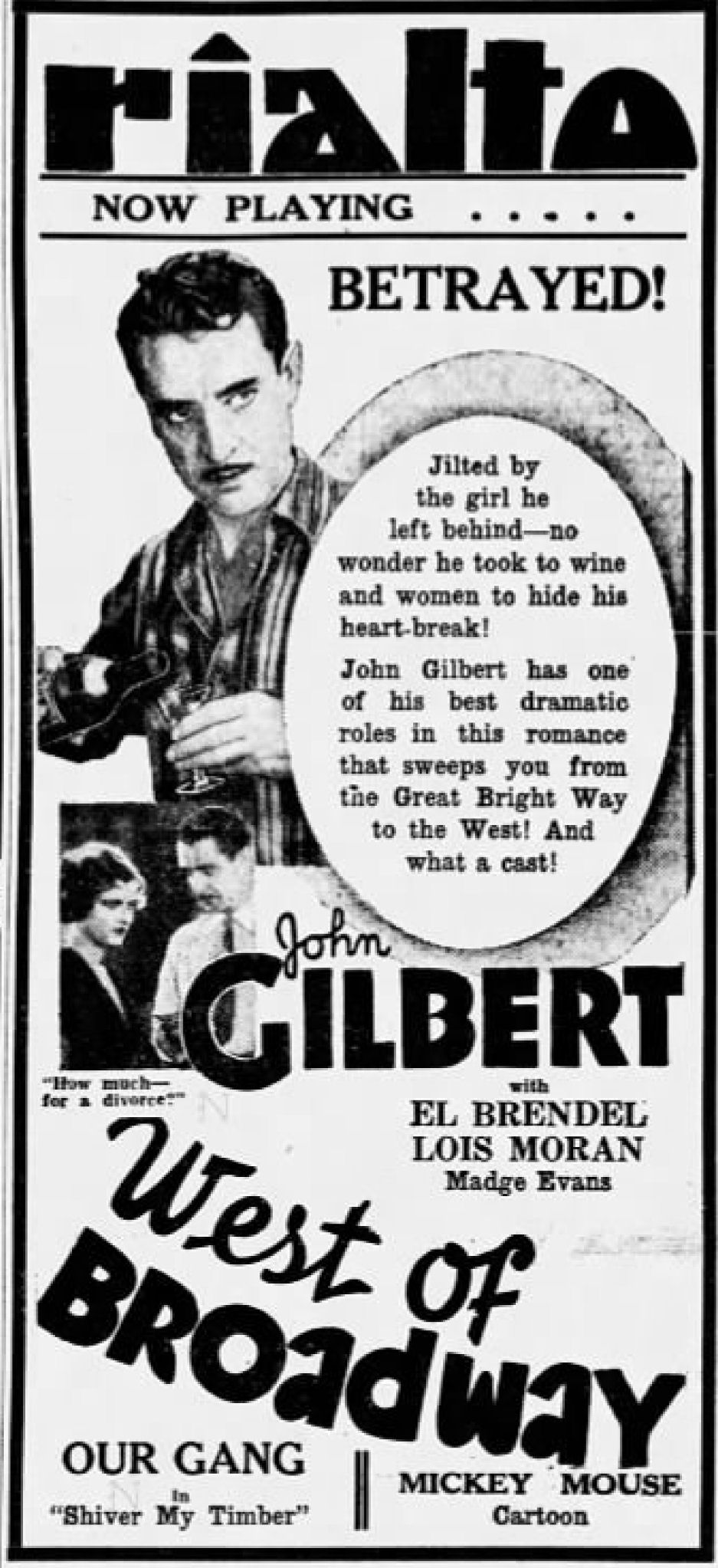 Rialto Theater advertisement - 12 Dec MC - Allentown PA - for the American film West of Broadway (1931).